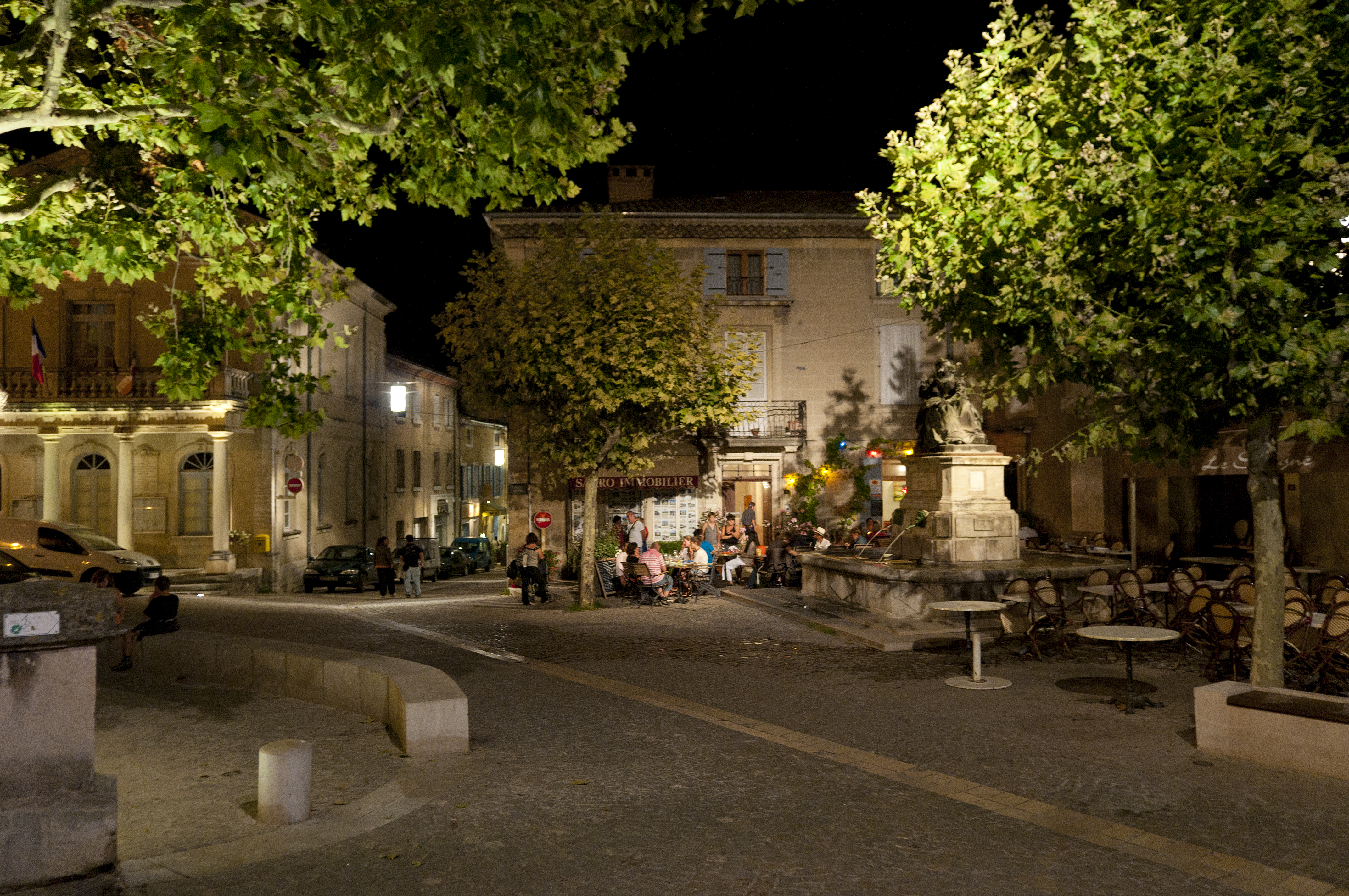 Evening in Grignan, Provence, France